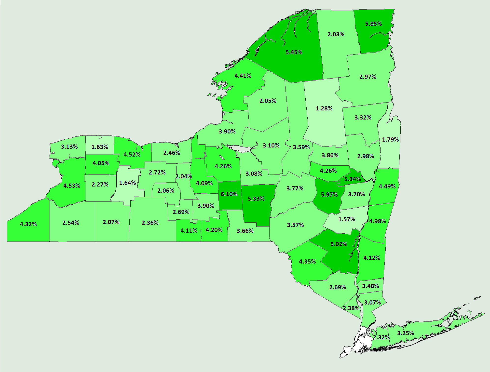 Percentage of same-sex marriages in the counties of New York State (excluding New York City) in 2017 5.02%–6.10% 4.05%–4.98% 2.04%–3.90% 1.28%–1.79%